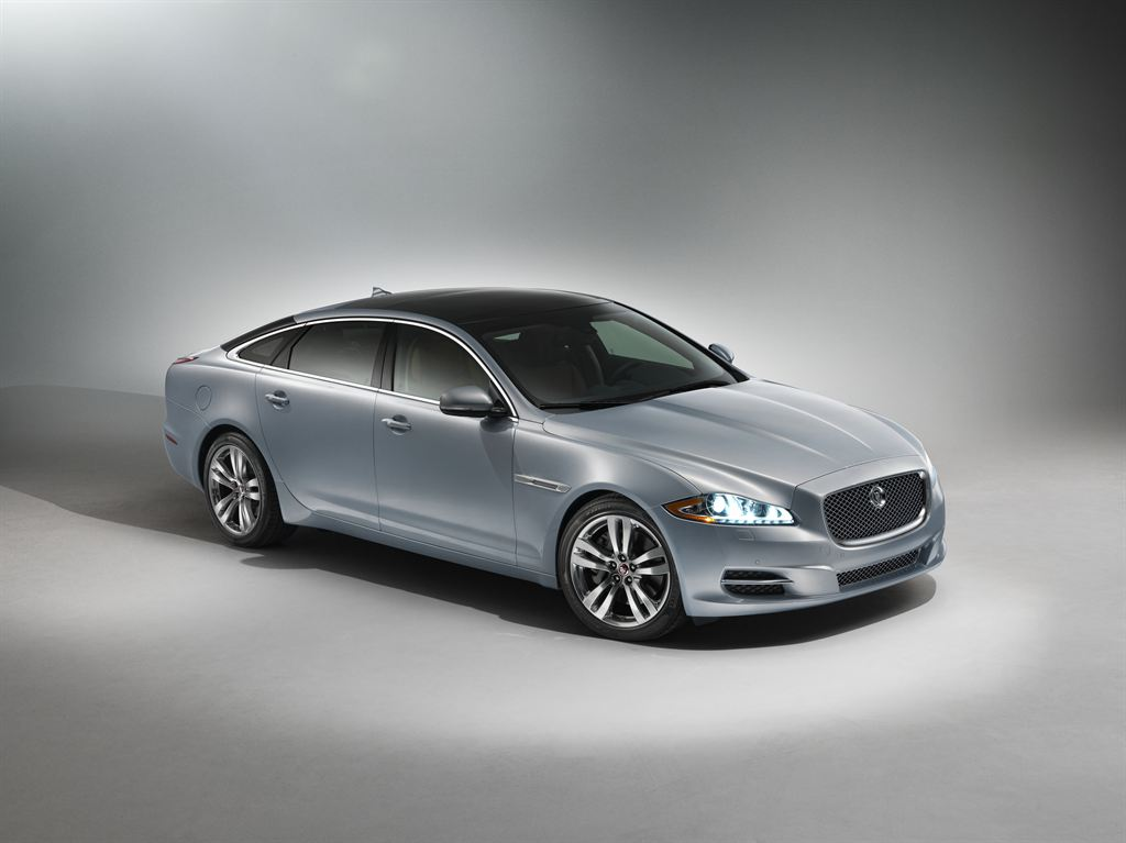 Enhanced luxury features in the rear cabin of the 2014 Model Year XJ add to the already luxurious status of Jaguar’s flagship saloon